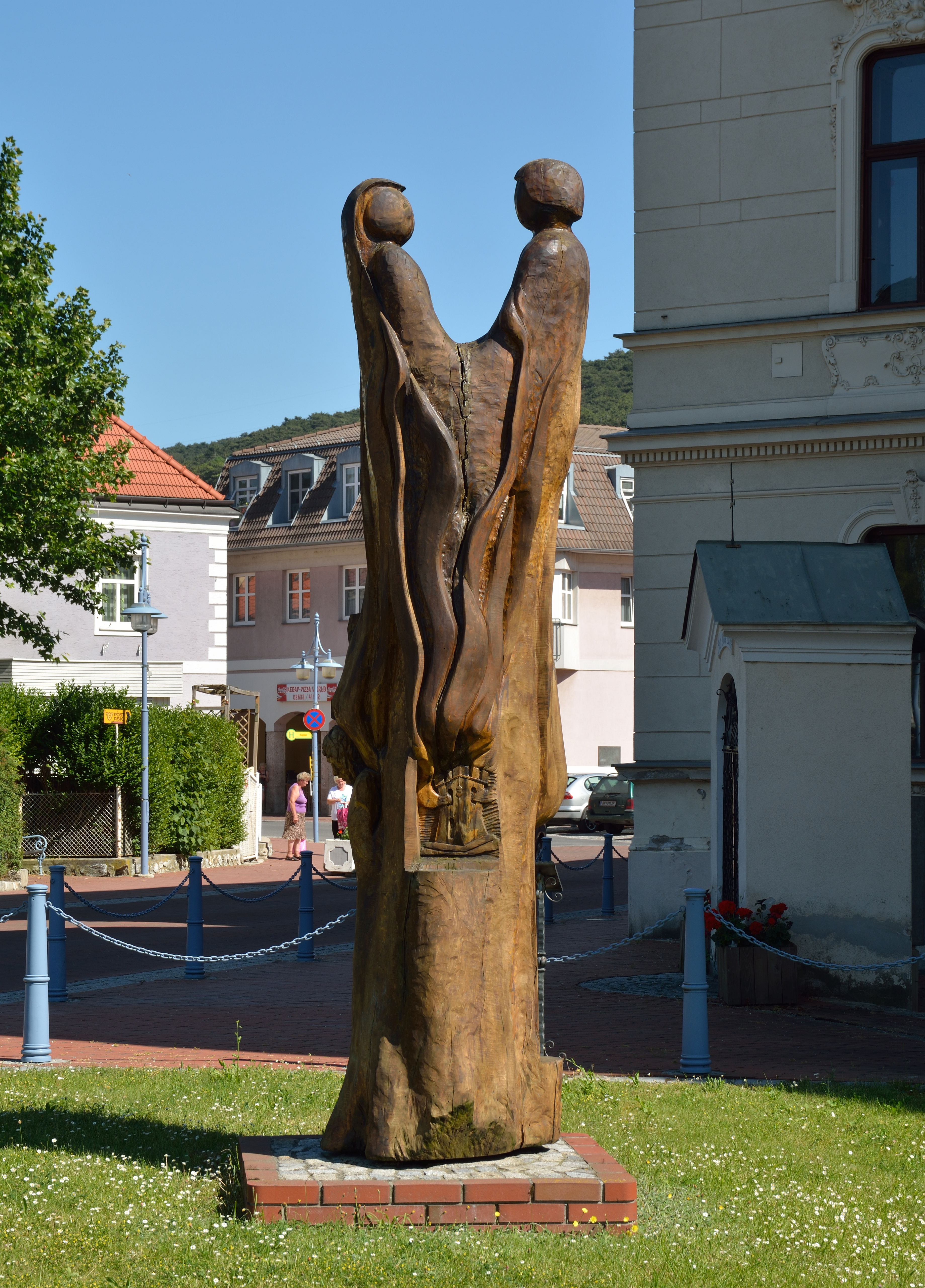 Schicksalslinde, sculpture by Christa Lisy, Imrich Casta, Kurt Weeber and Josef Drasch, Markt Piesting, Lower Austria